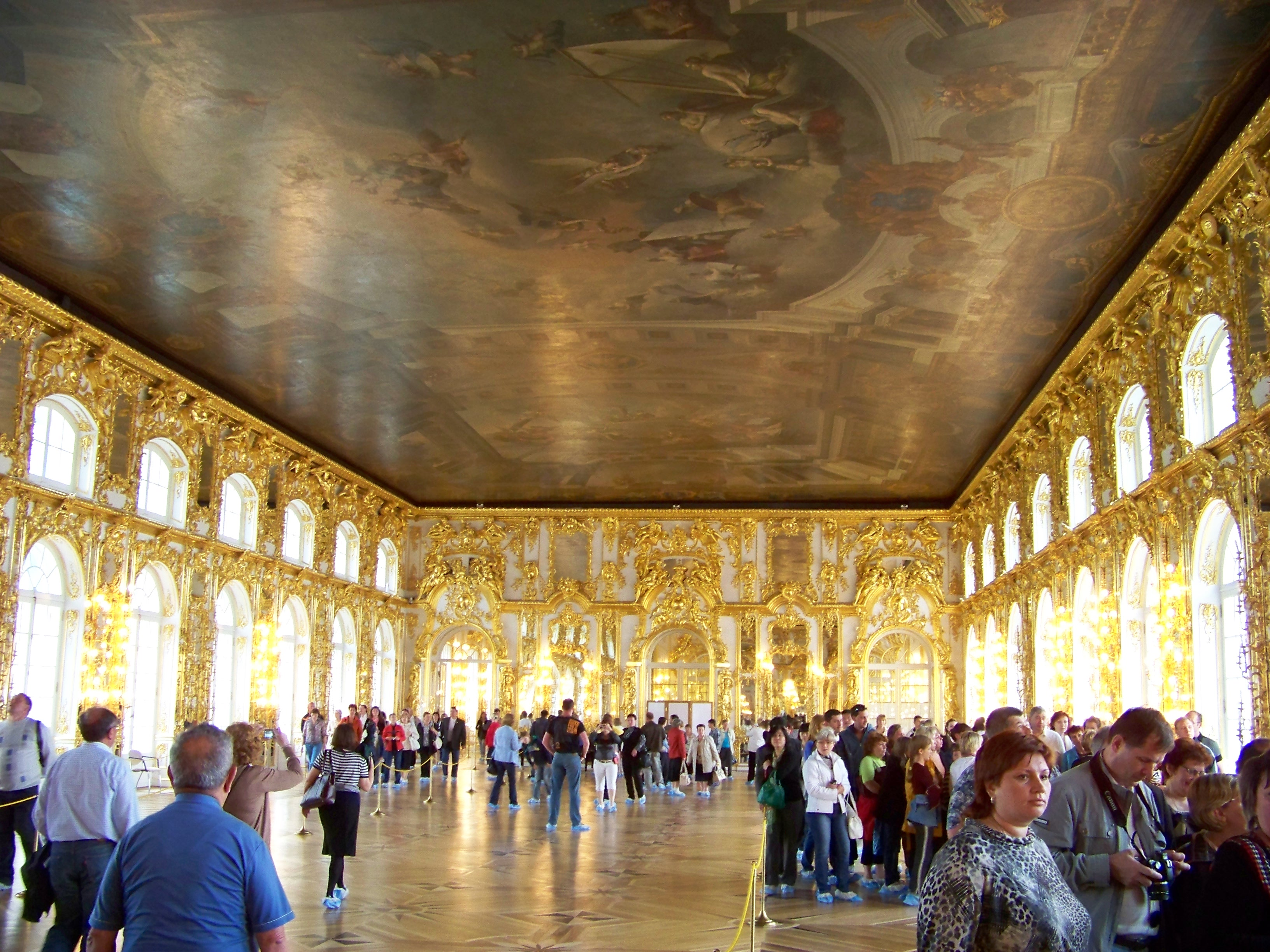 Catherine Palace; Great Hall; Pushkin, Russia